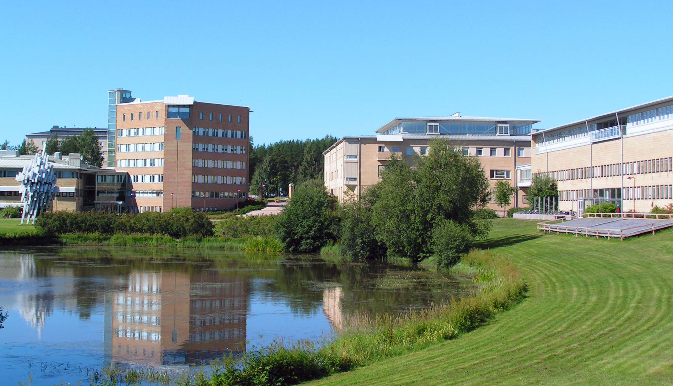 Umeå University Campus pond, Sweden